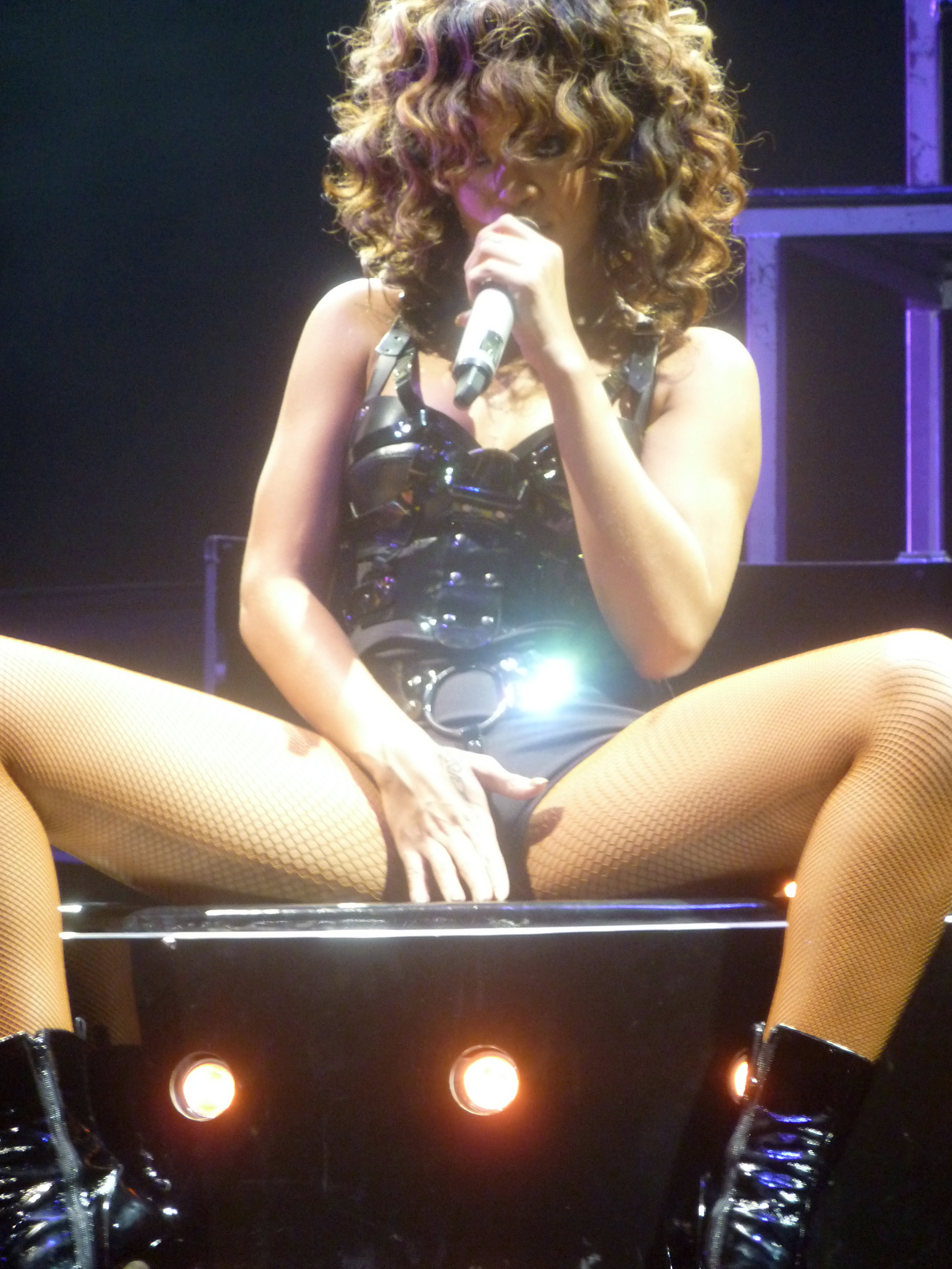 Rihanna in concert at the Paris Bercy during the "Loud Tour" in October 2011.